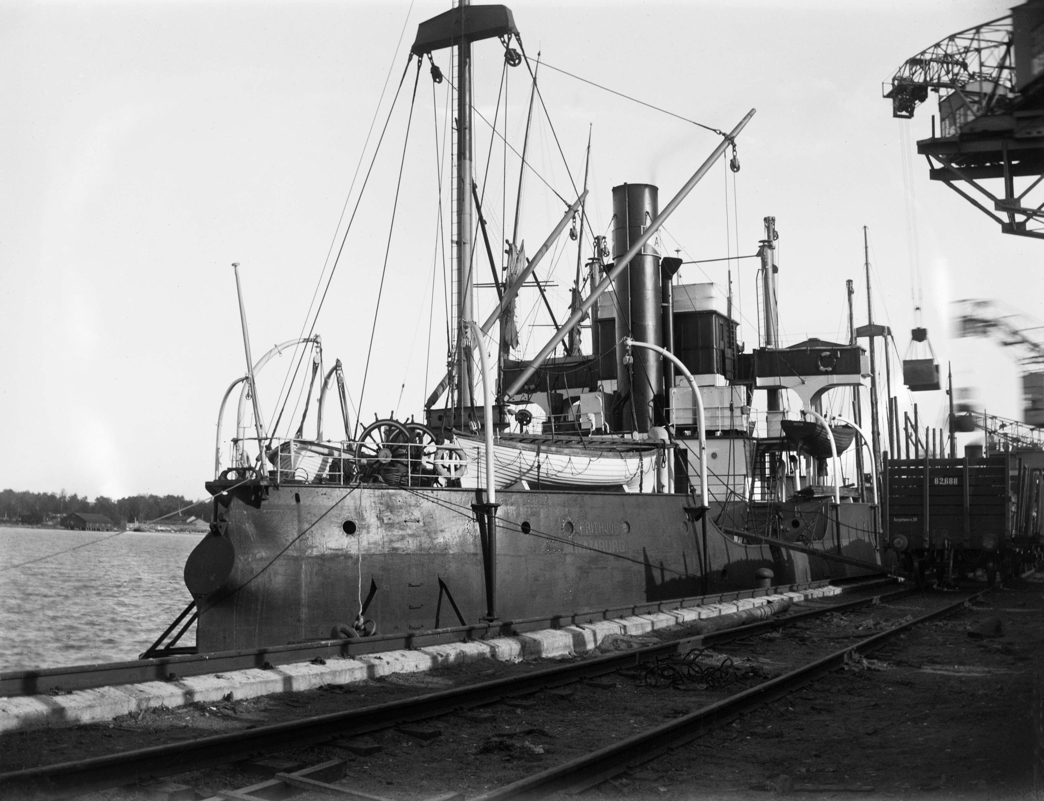 The German freighter ss Frithjof (Hamburg) in Helsinki halfway through the 1920s